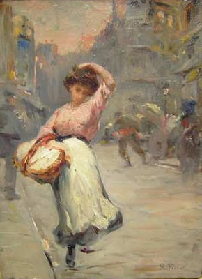 No title